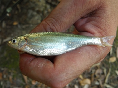 Alburnus arborella collected in Ombrone river (Tuscany, central italy).